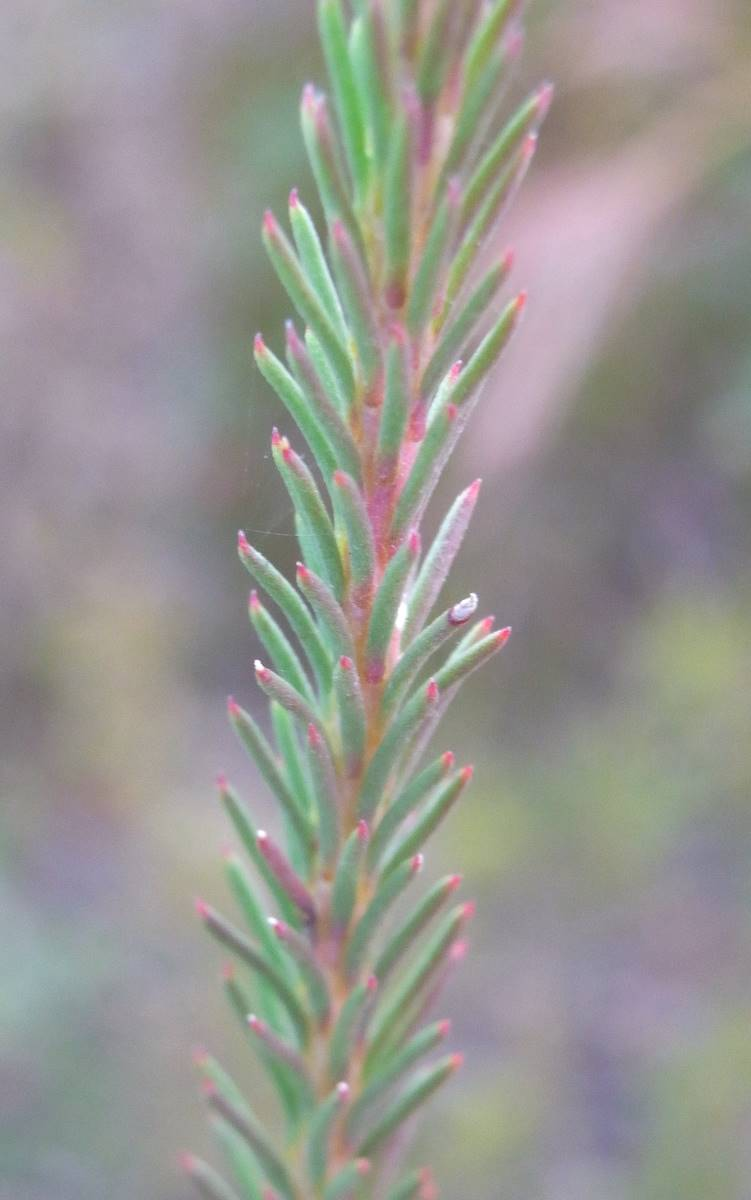 Smoke Bush Towlers Track, Ku-ring-gai Chase National Park Australia. Probably Conospermum ericifolium